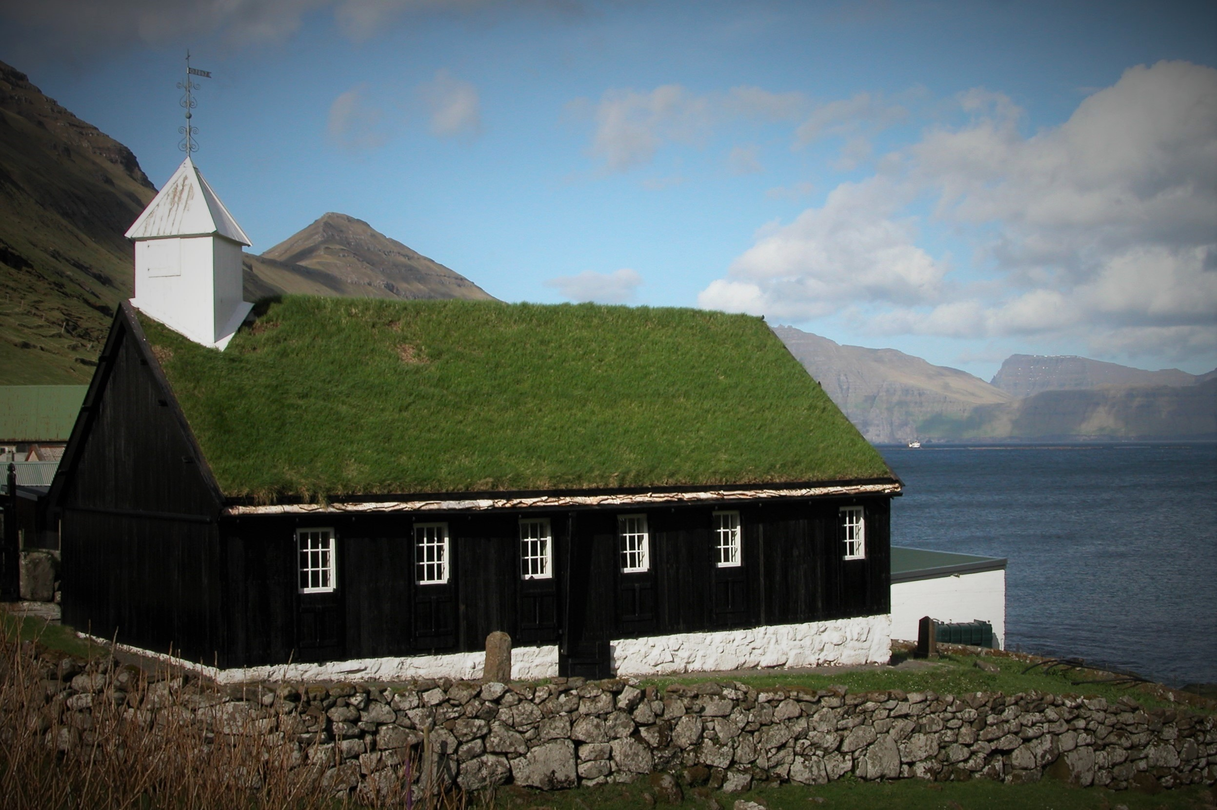 Church of Funningur, Eysturoy, Faroe Islands